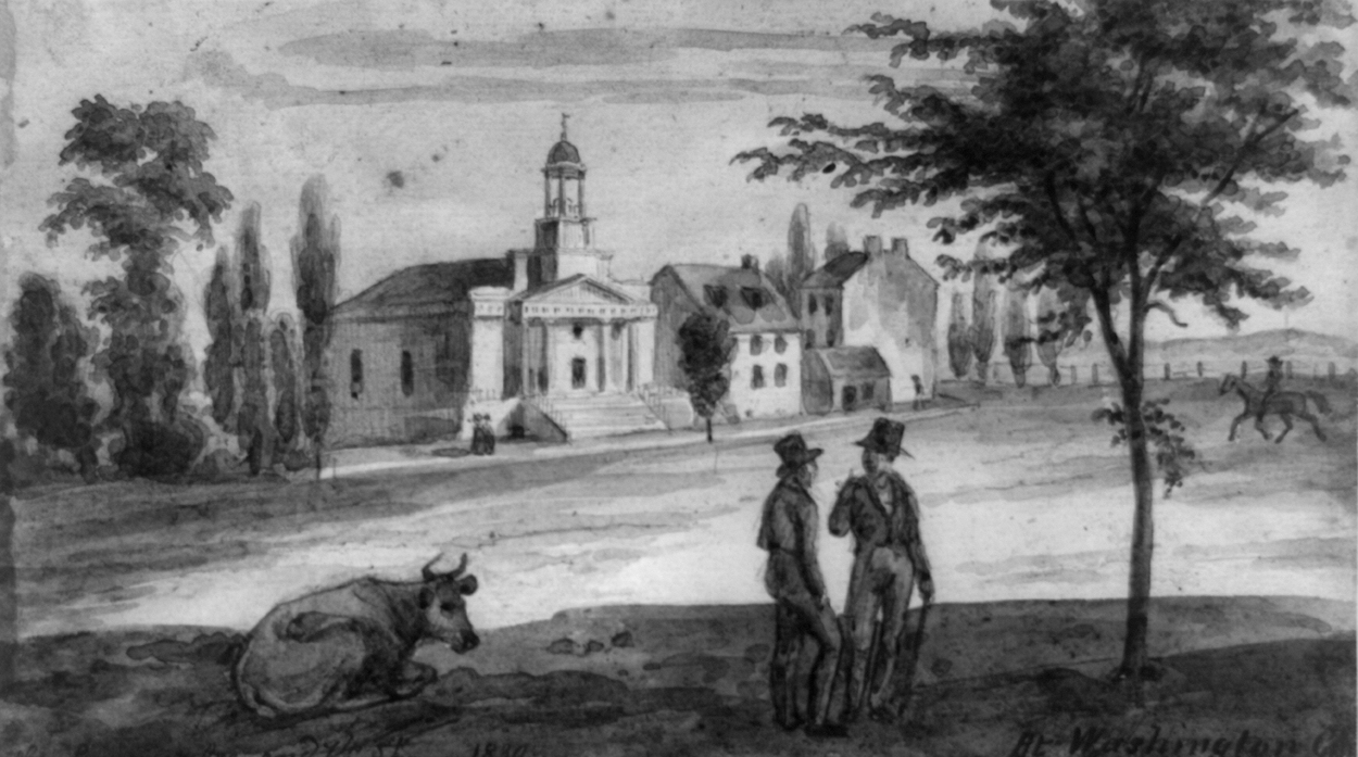 Cityscape by artist Augustus Kollner shows two men standing lower center near Pennsylvania Avenue and 7th Street in Washington, D.C., United States in 1839. A cow lies on the ground nearby. A man on horseback rides toward the First Unitarian Church (situated on the northeast corner of 6th Street and Pennsylvania Avenue), a building designed by Charles Bulfinch. Original artwork was brown ink wash over a graphite underdrawing.